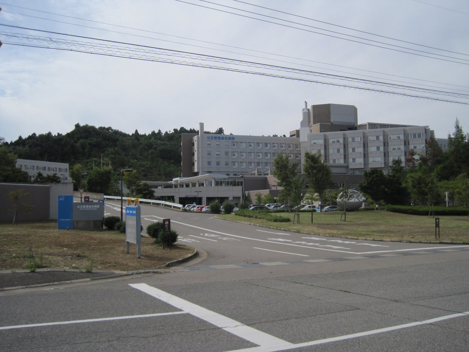 Noto General Hospital(Nanao city, Ishikawa prefecture)